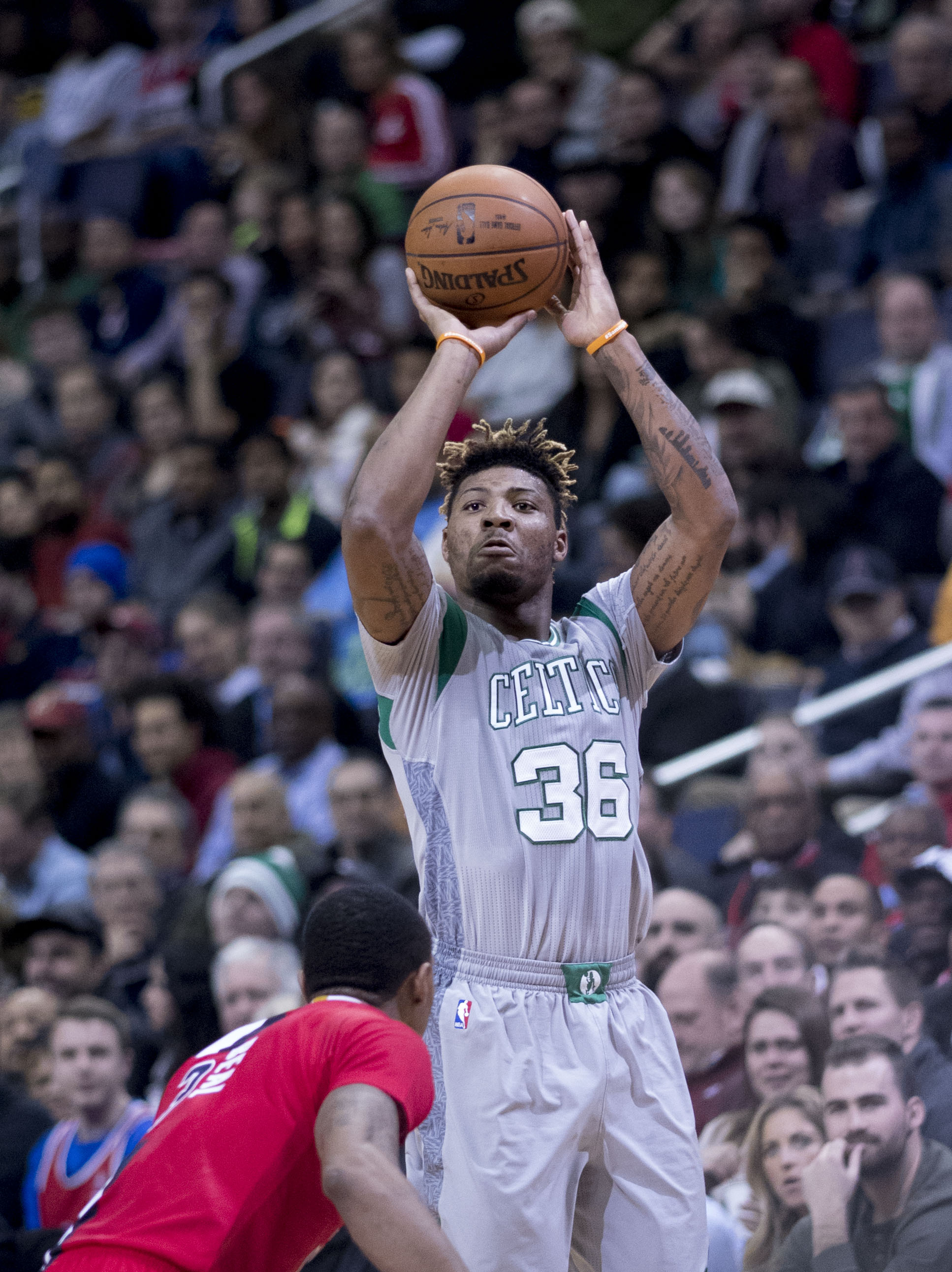 Celtics at Wizards 1/24/17